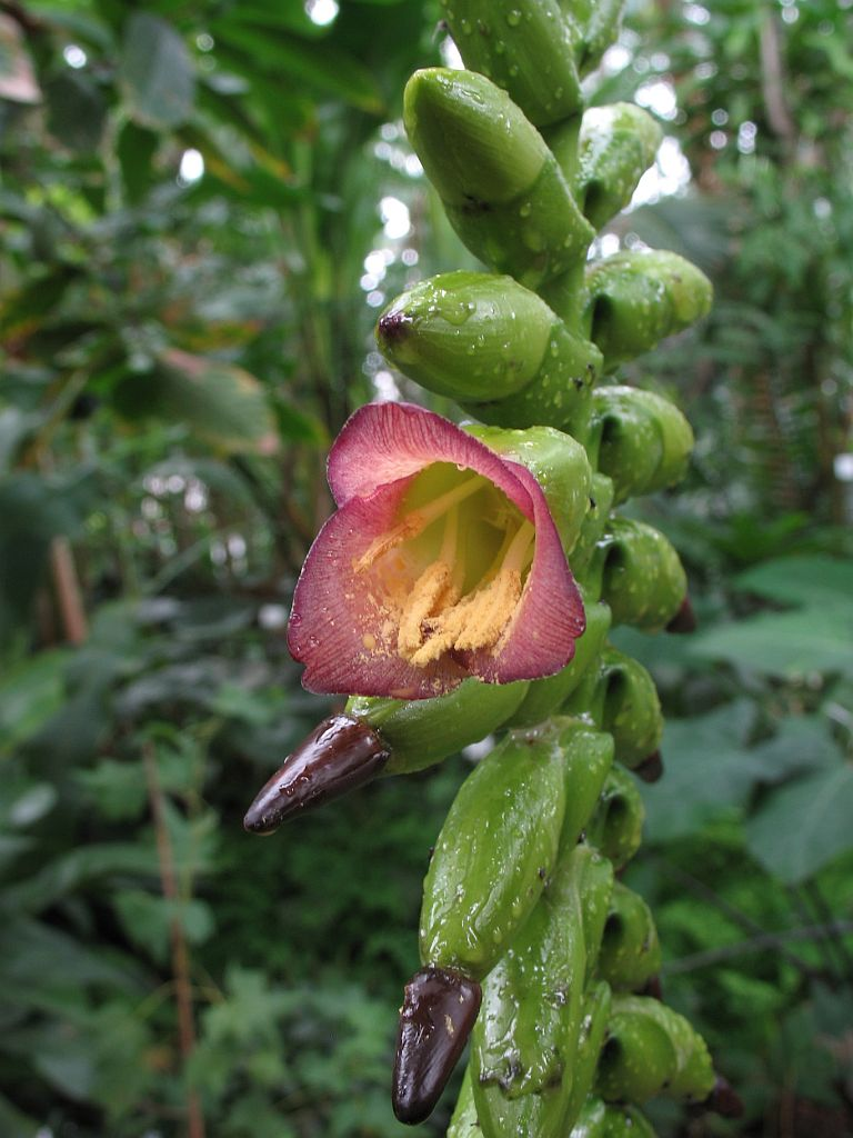 Vriesea oleosa in cultivation at the Botanical Garden of Heidelberg, Germany.